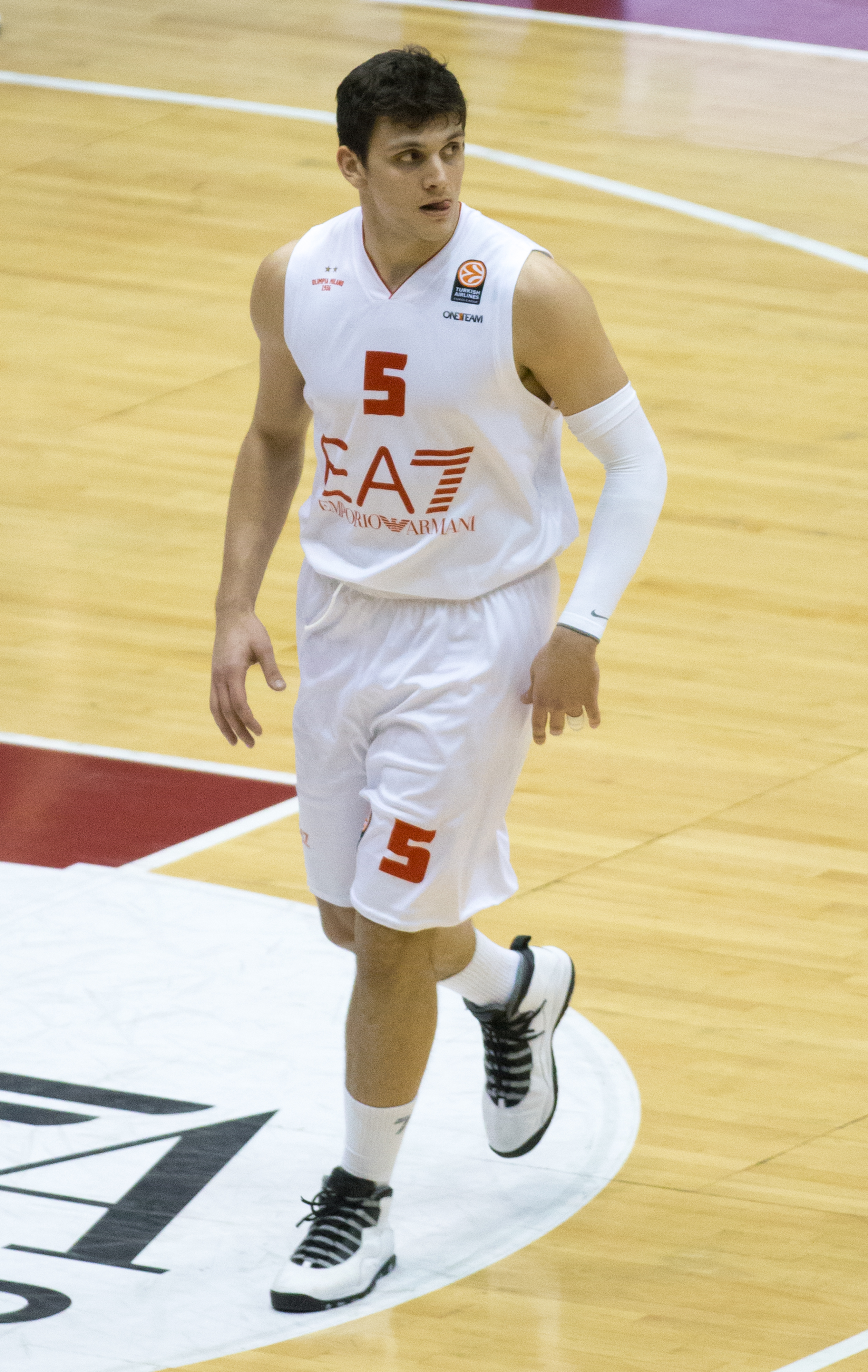 Alessandro Gentile playing for Olimpia Milano in an Euroleague match against FC Barcelona Basquet